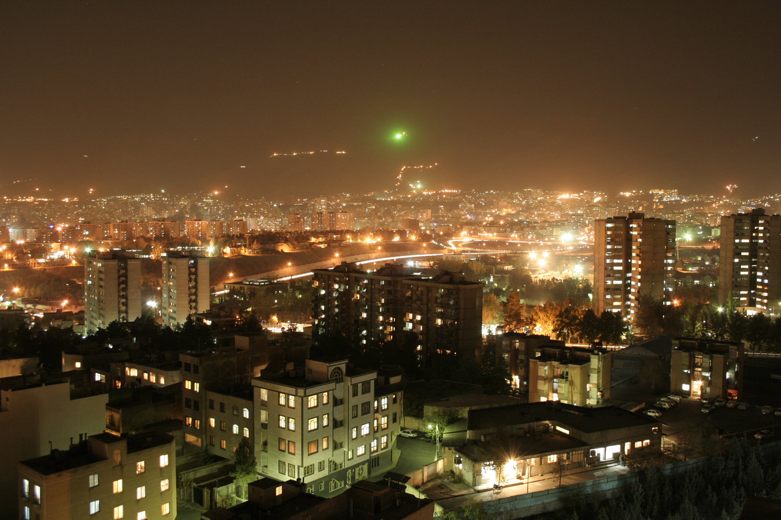 Buildings in Tehran, capital of Iran.